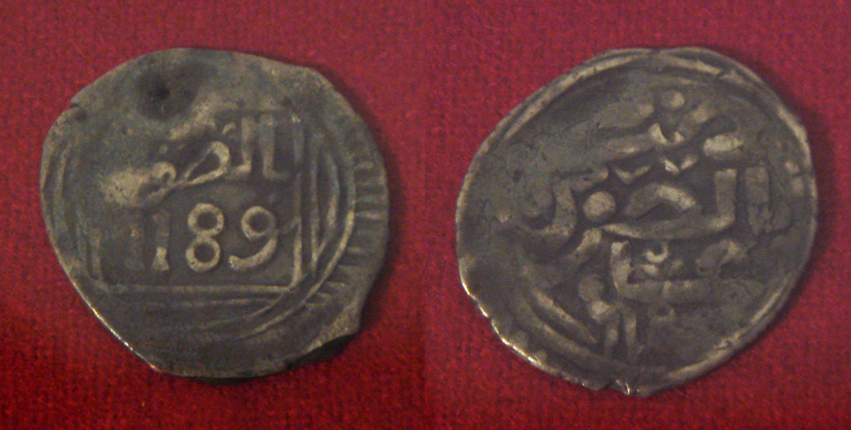 Coins of Sidi Mohammed ben Abdallah 1760 1767 minted in Essaouira.